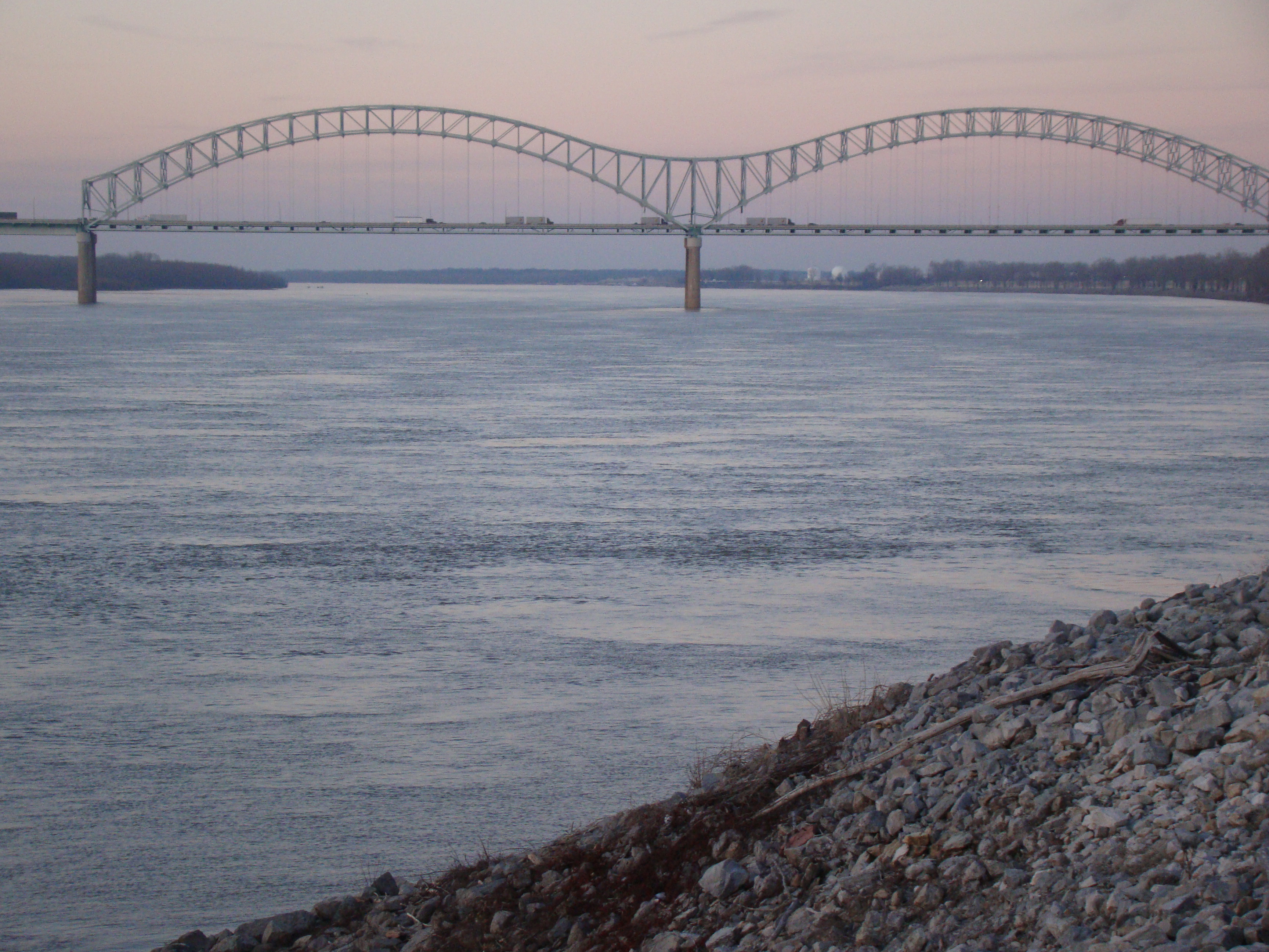 Hernando de Soto Bridge. View from Memphis, Tennessee